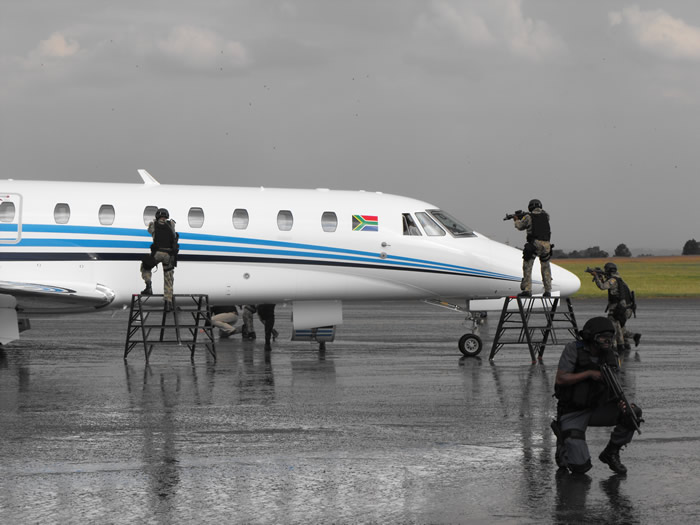 Read more